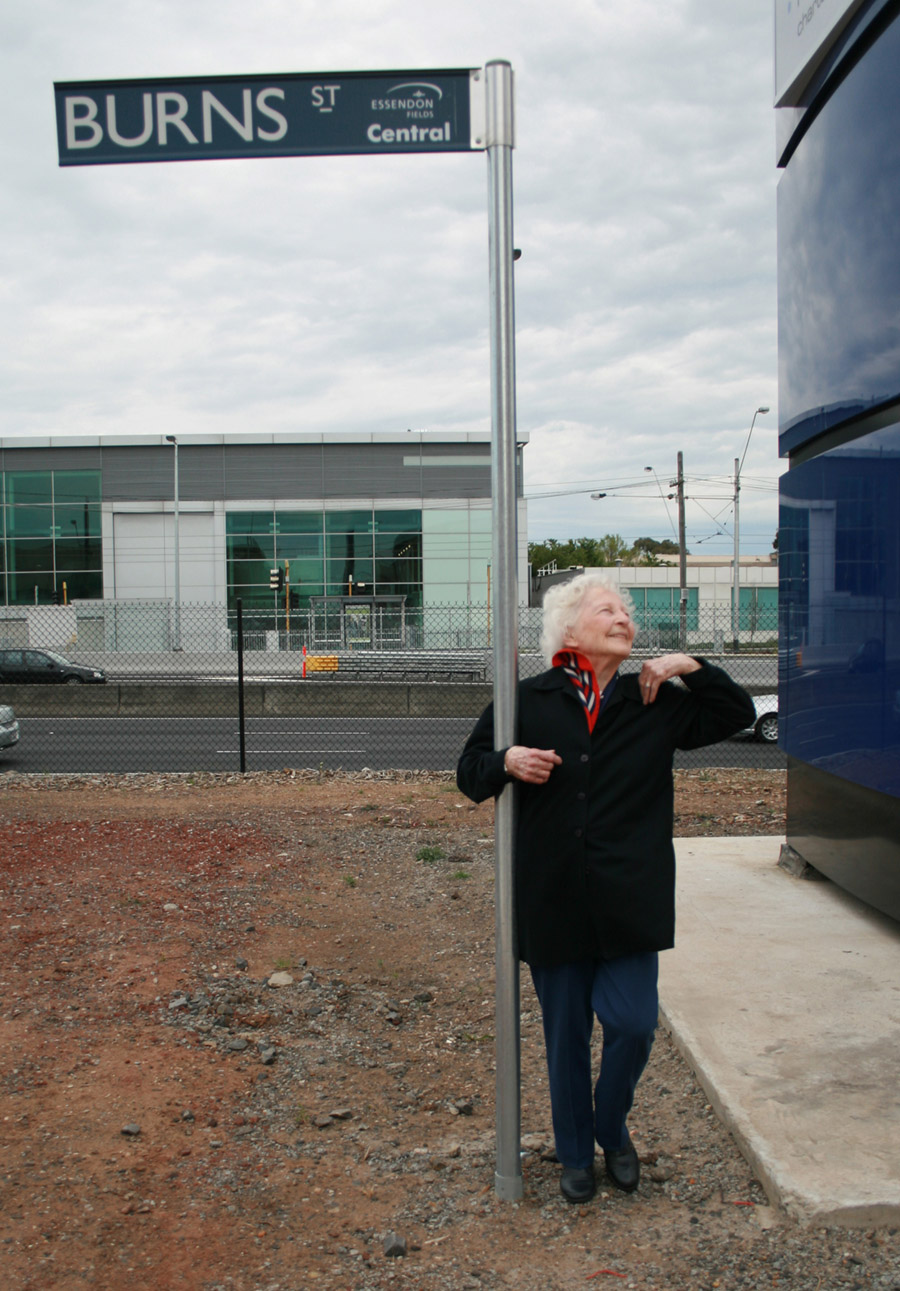 Jean Burns poses next to her new street sign